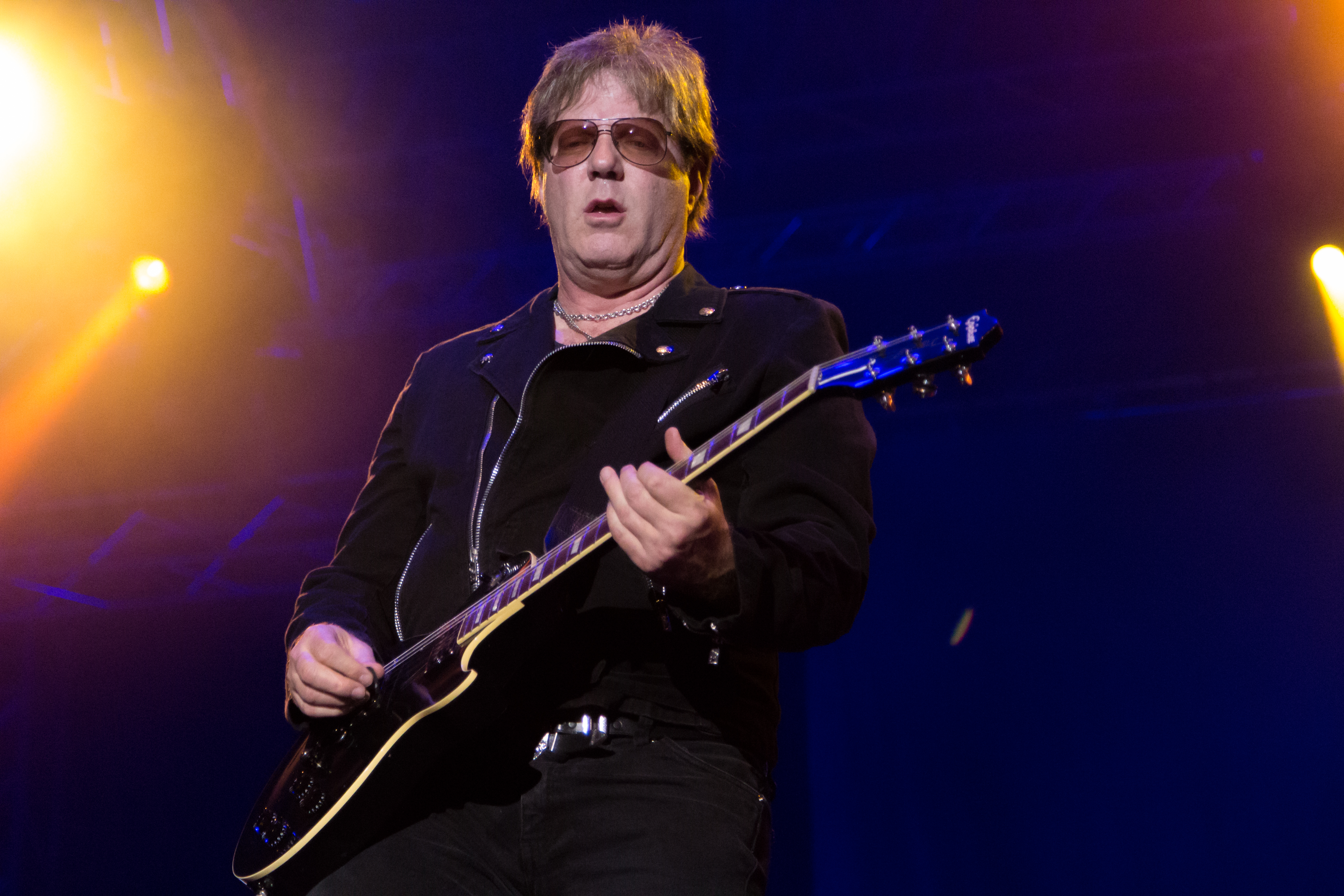 John „Jay Jay“ French from Twisted Sister at the See-Rock Festival 2014